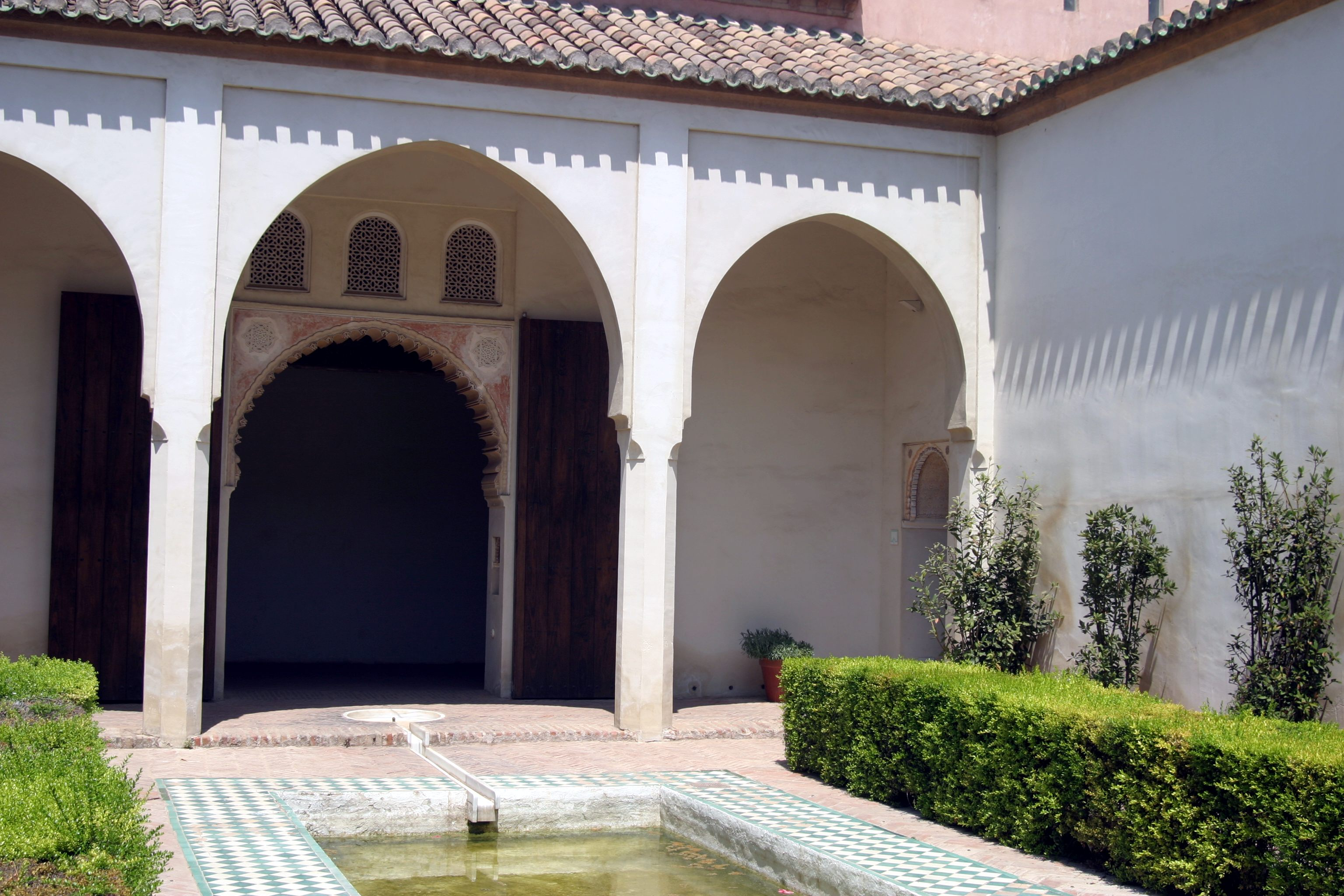 Alcazaba of Malaga, Spain